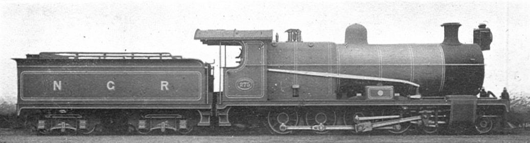 For the Durban-Johannesburg Express, Natal Government Railways: "Mastodon" type Engine